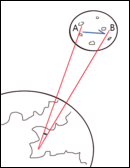 Figure 2. Diagram illustrating distance observed to be travelled by laser on the moon (from point A to point B) as light source moves laterally on Earth.